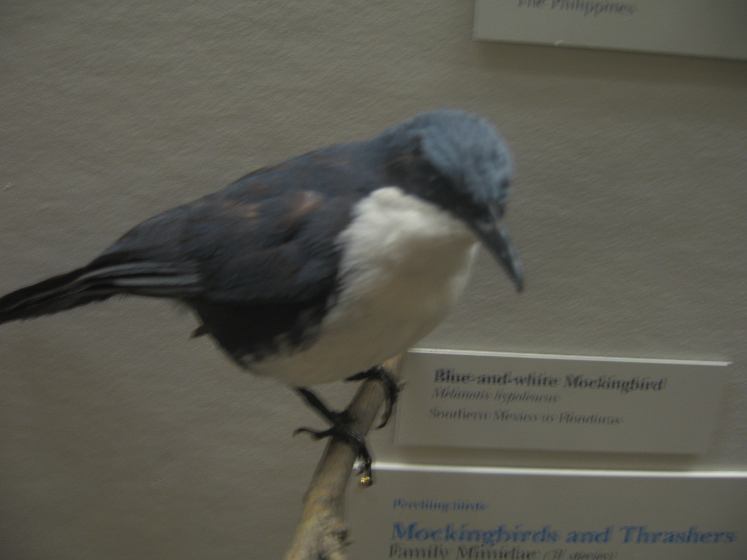 A preserved Blue and White Mockingbird